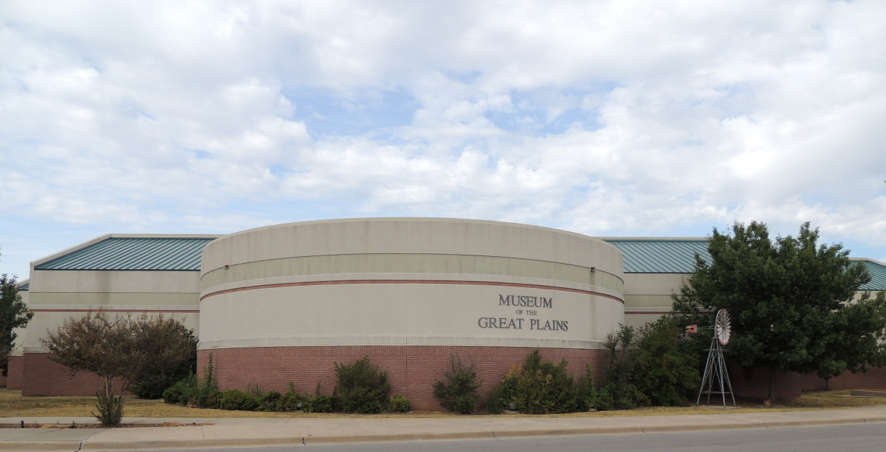 Museum of the Great Plains located at 601 Northwest Ferris Avenue in Lawton, Oklahoma.